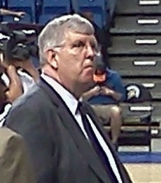 Utah State basketball coach Stew Morrill at the Utah State vs San Jose State game at San Jose's Event Center in 2014.